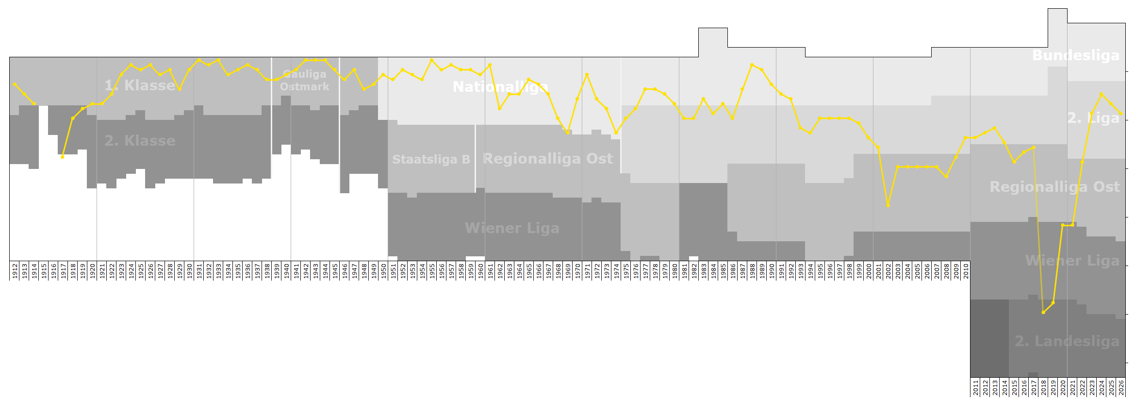 Chart of end-season table positions of First Vienna FC in the Austrian football league system. Data source: RSSSF, , regiowiki.at, wfv.at, wikipedia